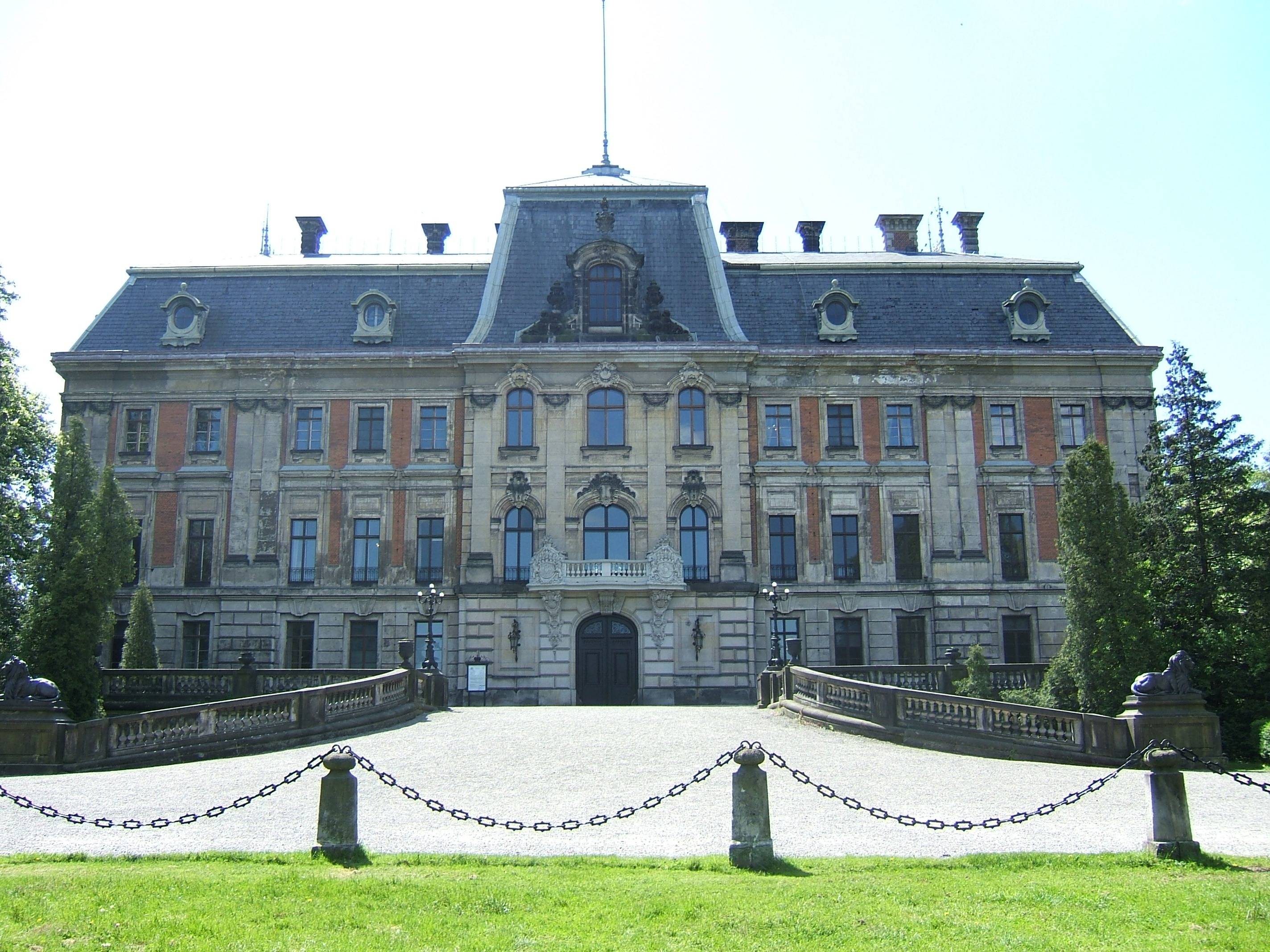 The front of the Palace in Pszczyna